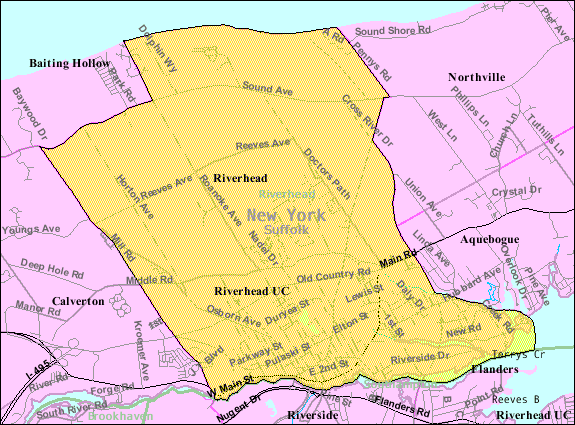 U.S. Census 2000 reference map for Riverhead